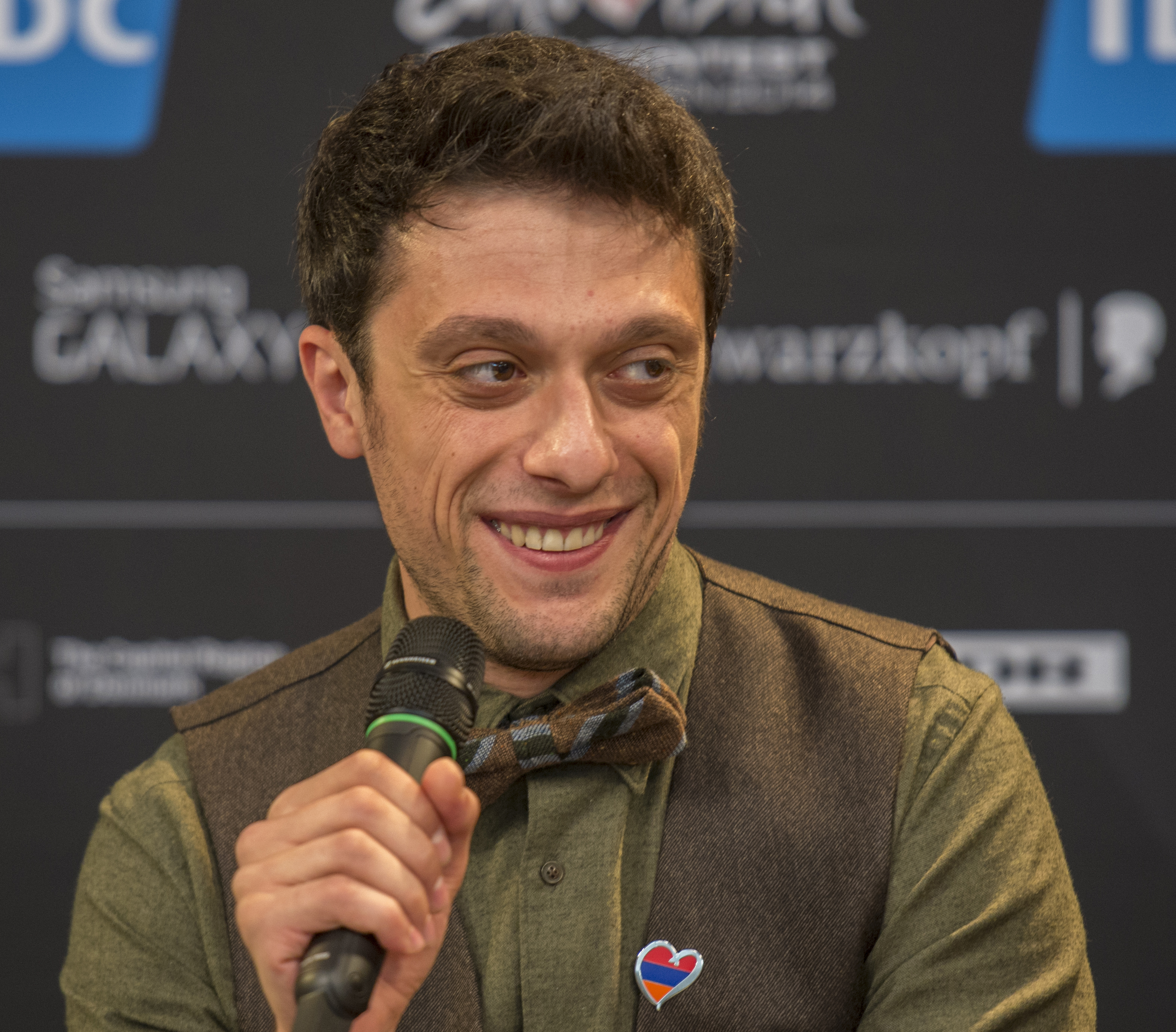 Aram Mp3 at a Meet & Greet during the Eurovision Song Contest 2014 Copenhagen. (Help translate this text)